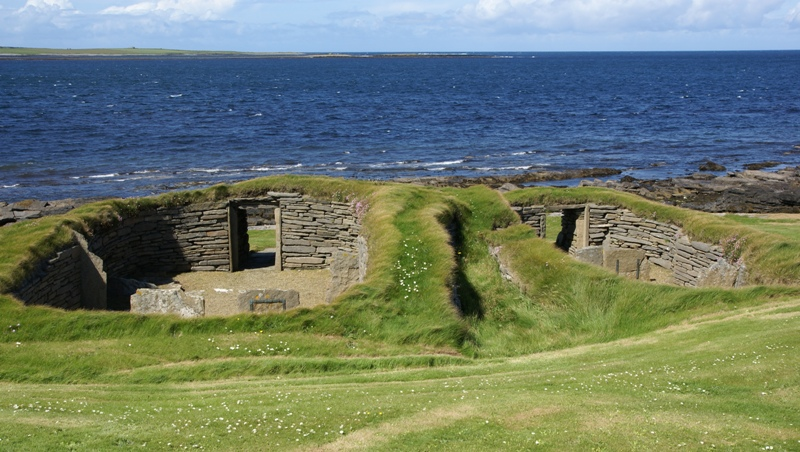 Knap of Howar, Papa Westray, Orkney, Scotland. View from the east.